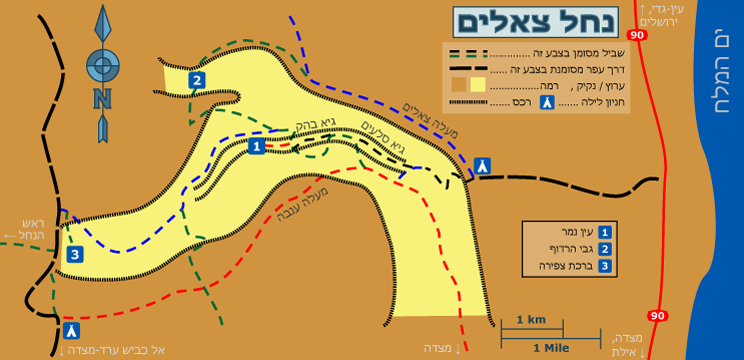 See English version at File:Zeelim lower trails en.png.